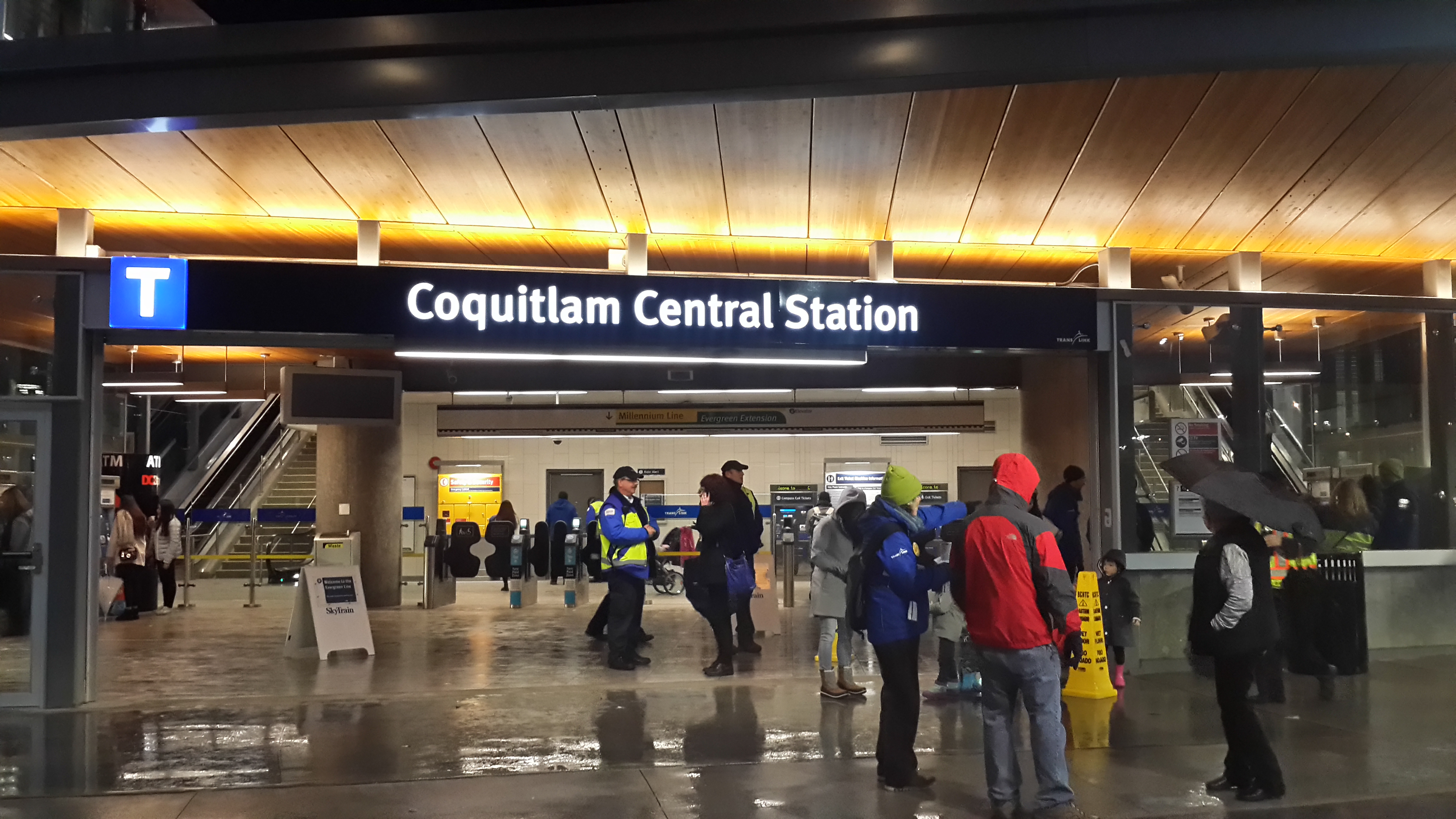 Entrance of Coquitlam Central Skytrain Station at the night, taken on December 2, 2016.